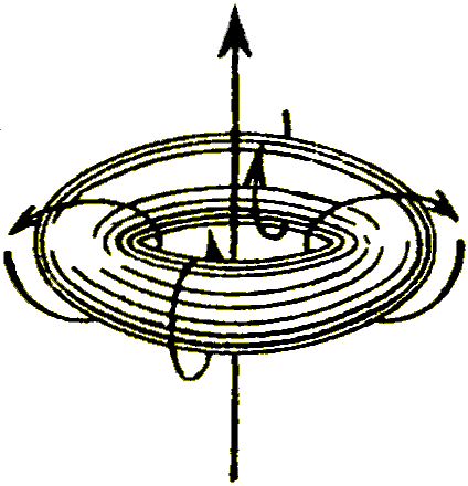 Vortex ring in a laminar fluid stream